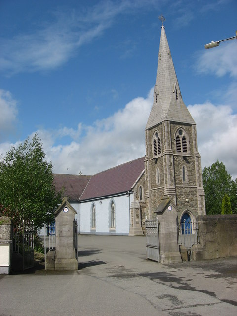 St. Brigid's Church, Dunleer, Co. Louth Early 19th century T-plan chapel with tower added in 1859.